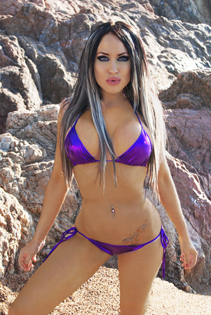 An image from Kataxenna Kova's Flickr account, titled: "Model Kataxenna Kova Purple Bikini"